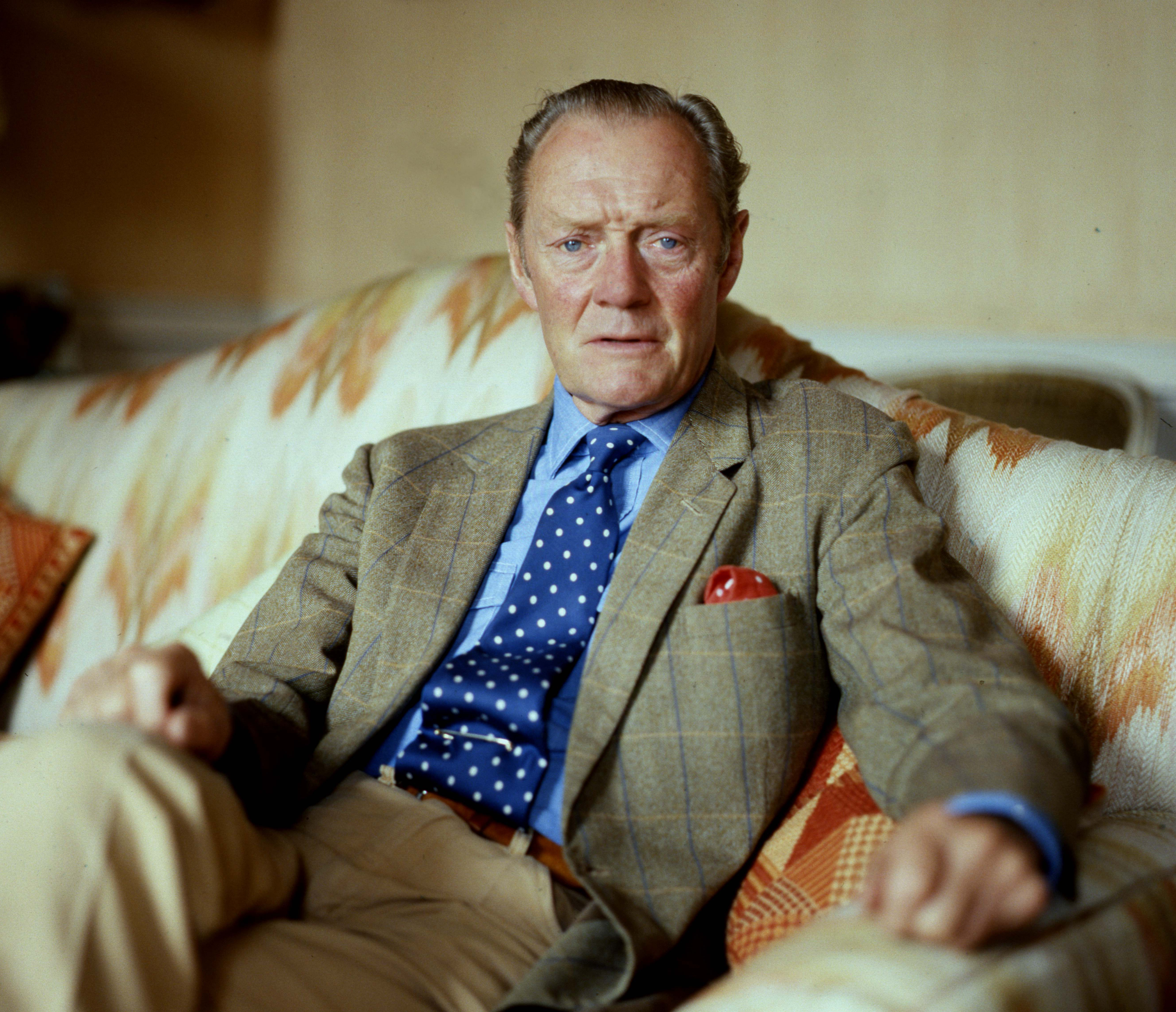 The 8th Duke of Wellington at home at Stratfield Saye House his family seat.